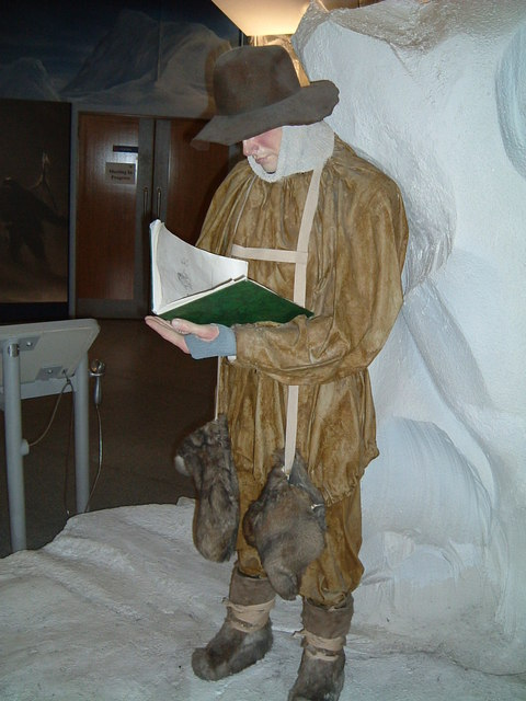 RRS Discovery Exhibition Centre This is the type of clothing worn on the expedition to the Arctic.